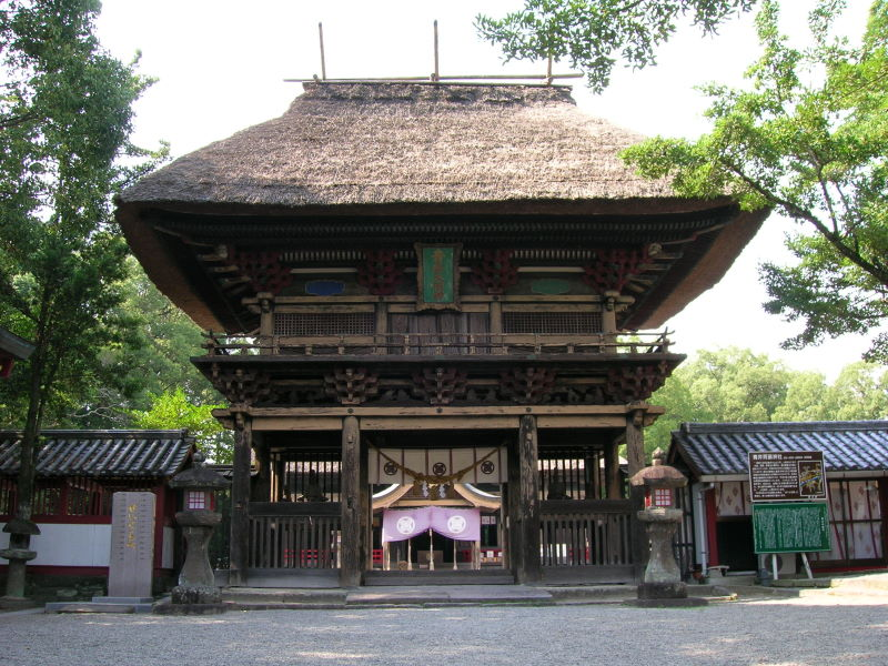 Rōmon (楼門) at Aoi Aso Shrine, a 3x2 two-storied gate with entrance through the central bay, yosemune-zukuri style, thatched roof